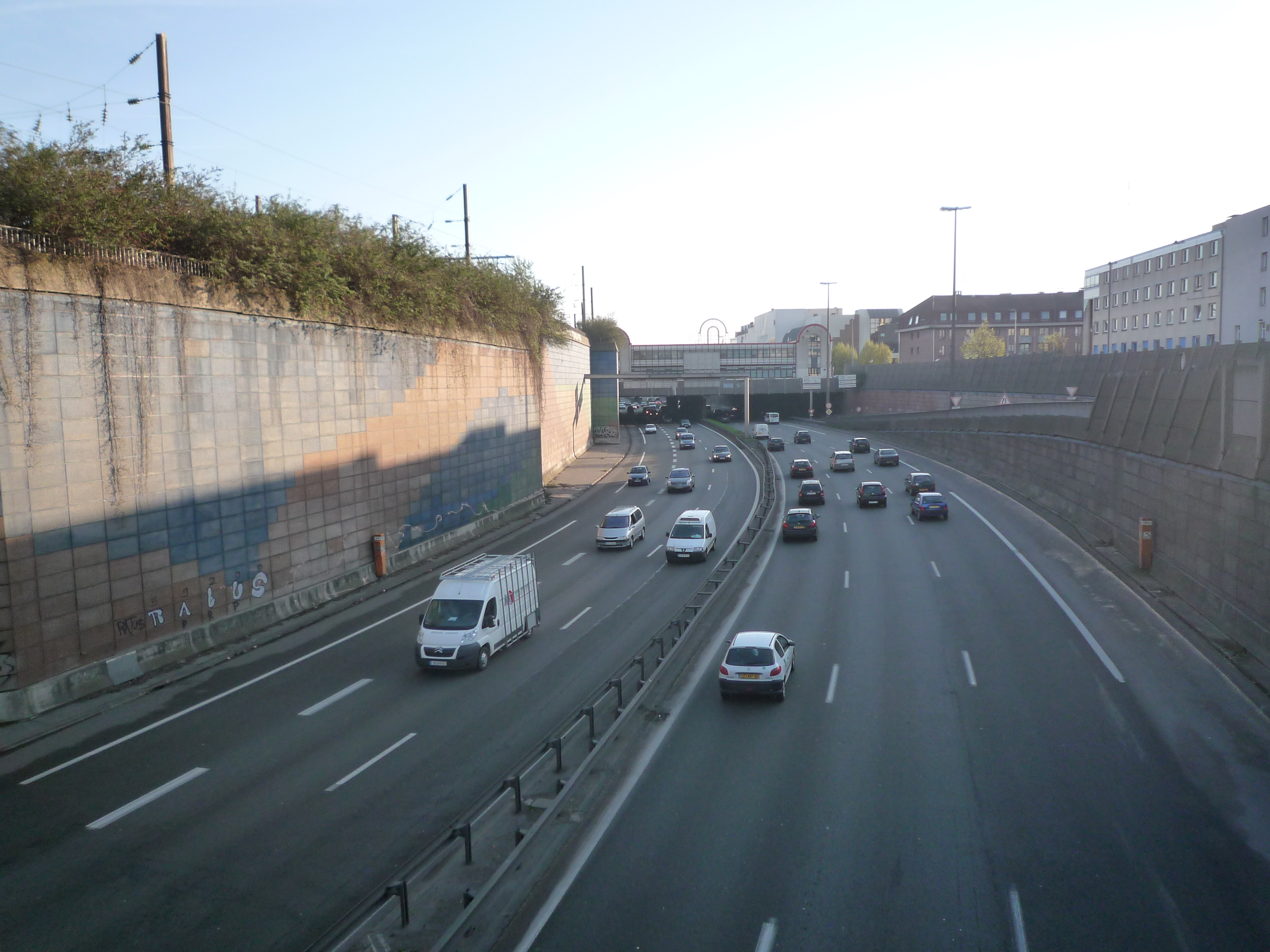 Lille, France.